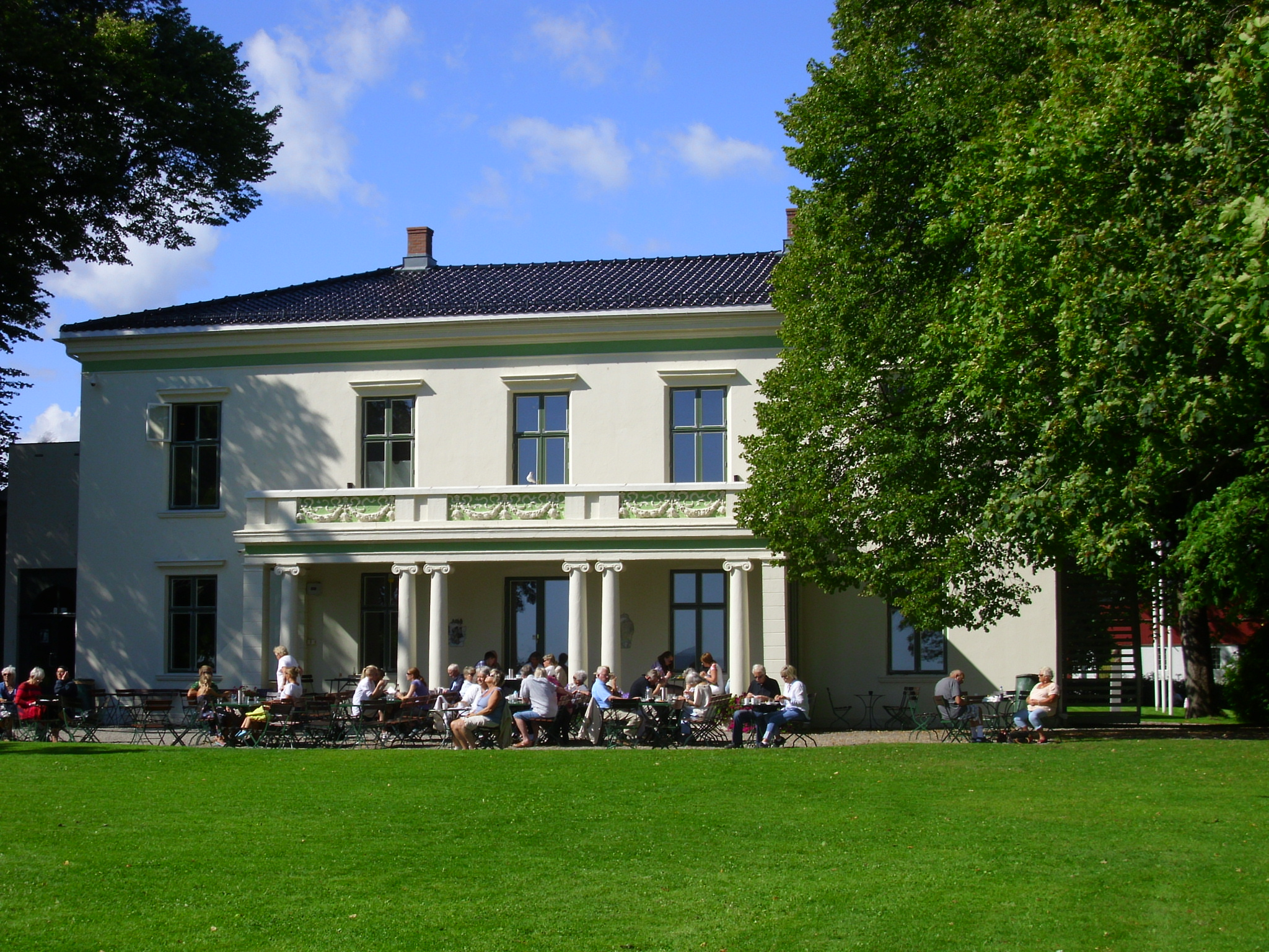 Gallery in Alby on the island of Jeløy, Moss